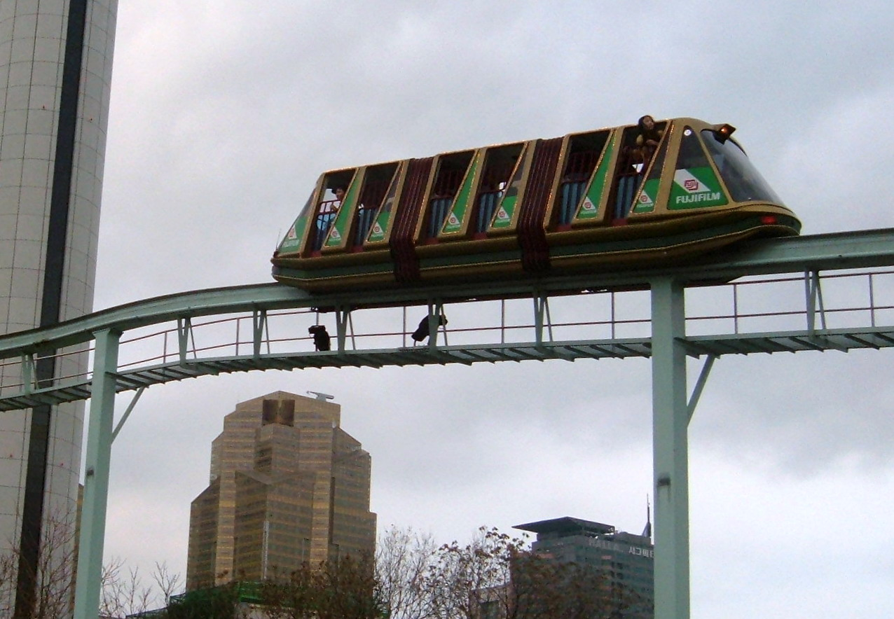 Intamin P6 "People Porter" Monorail in Lotte World, in Seoul, South Korea Modified file Flikr [1] Uploaded on December 13, 2004 made by Frayed